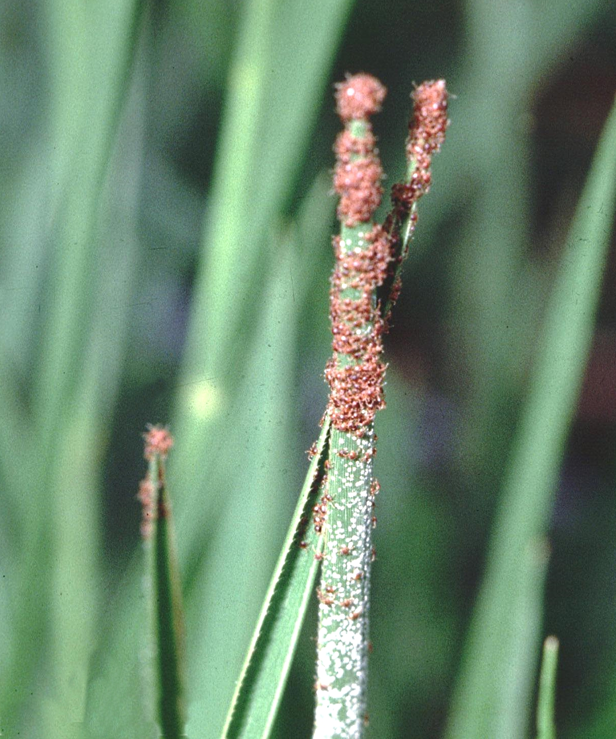 Larvae of Rhipicephalus microplus questing for hosts to feed on whilst clinging on to tips of blades of grass in a cattle pasture.